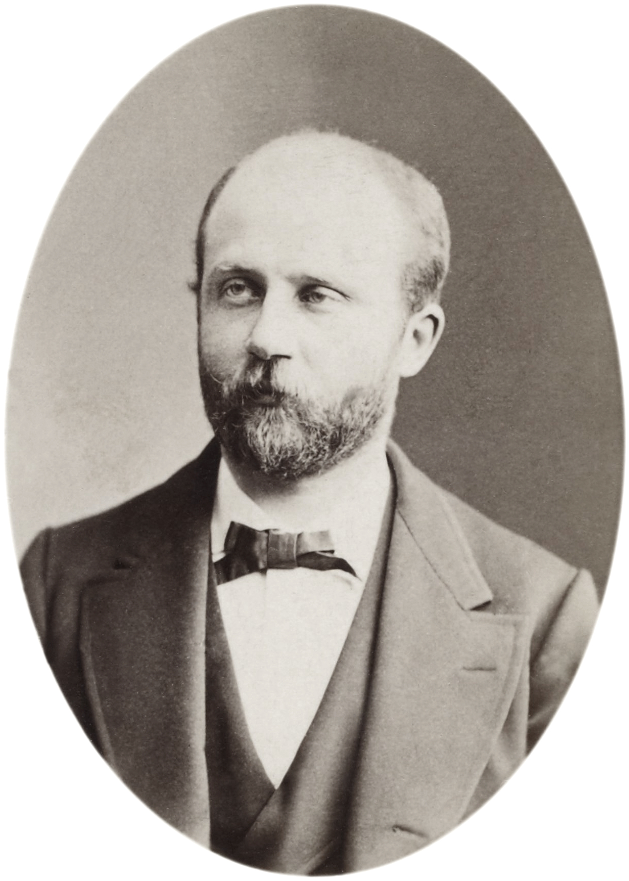 Gaston Maspero (1846-1916), french egyptologist.